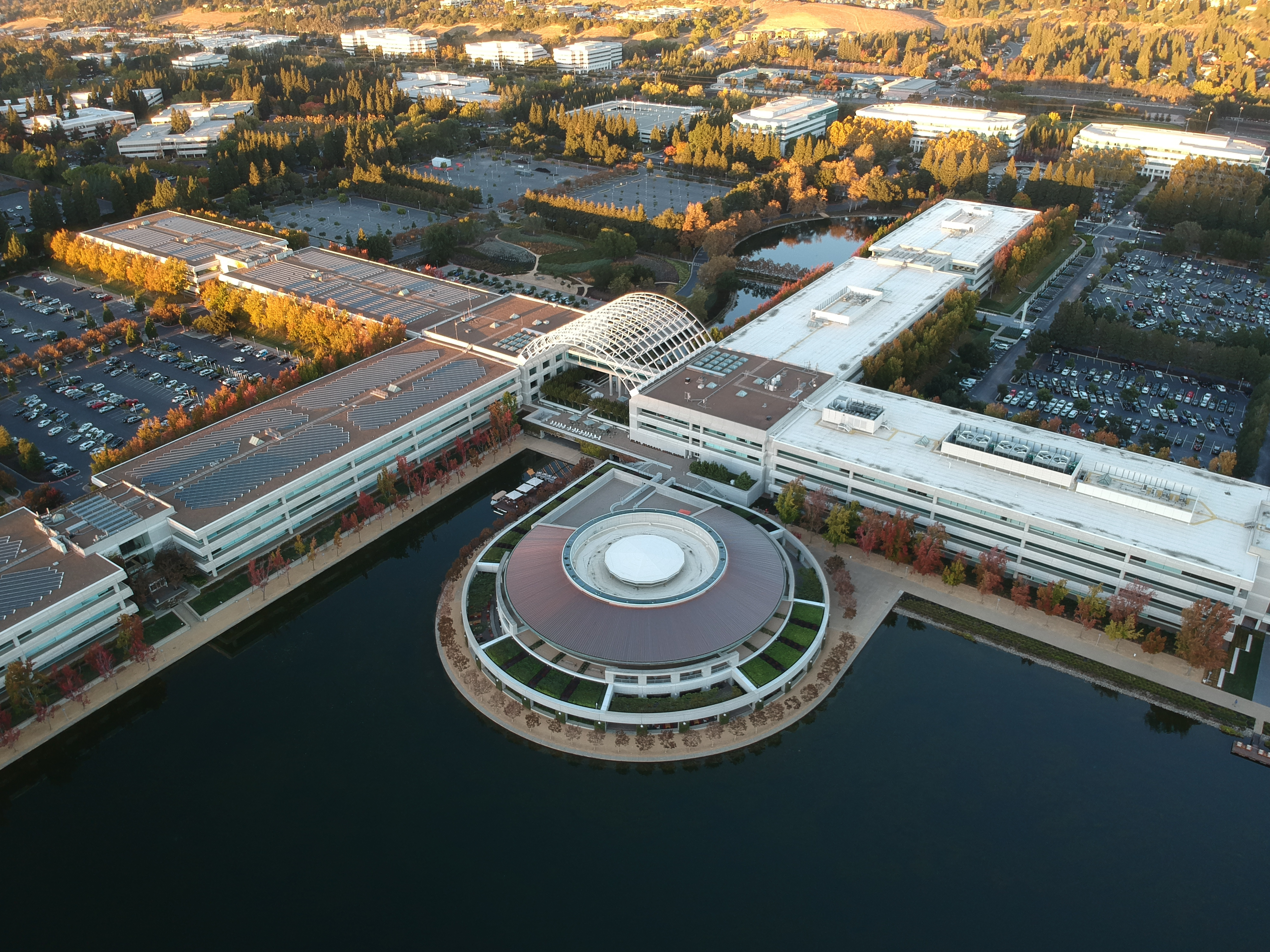 This is an aeriel photograph of Bishop Ranch.